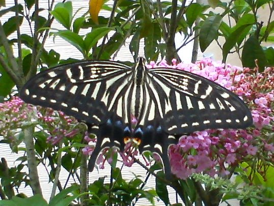 Papilio xuthus on the pink buds of the butterfly bush. Location: Yoto, Utsunomiya-city, Tochigi, Japan.